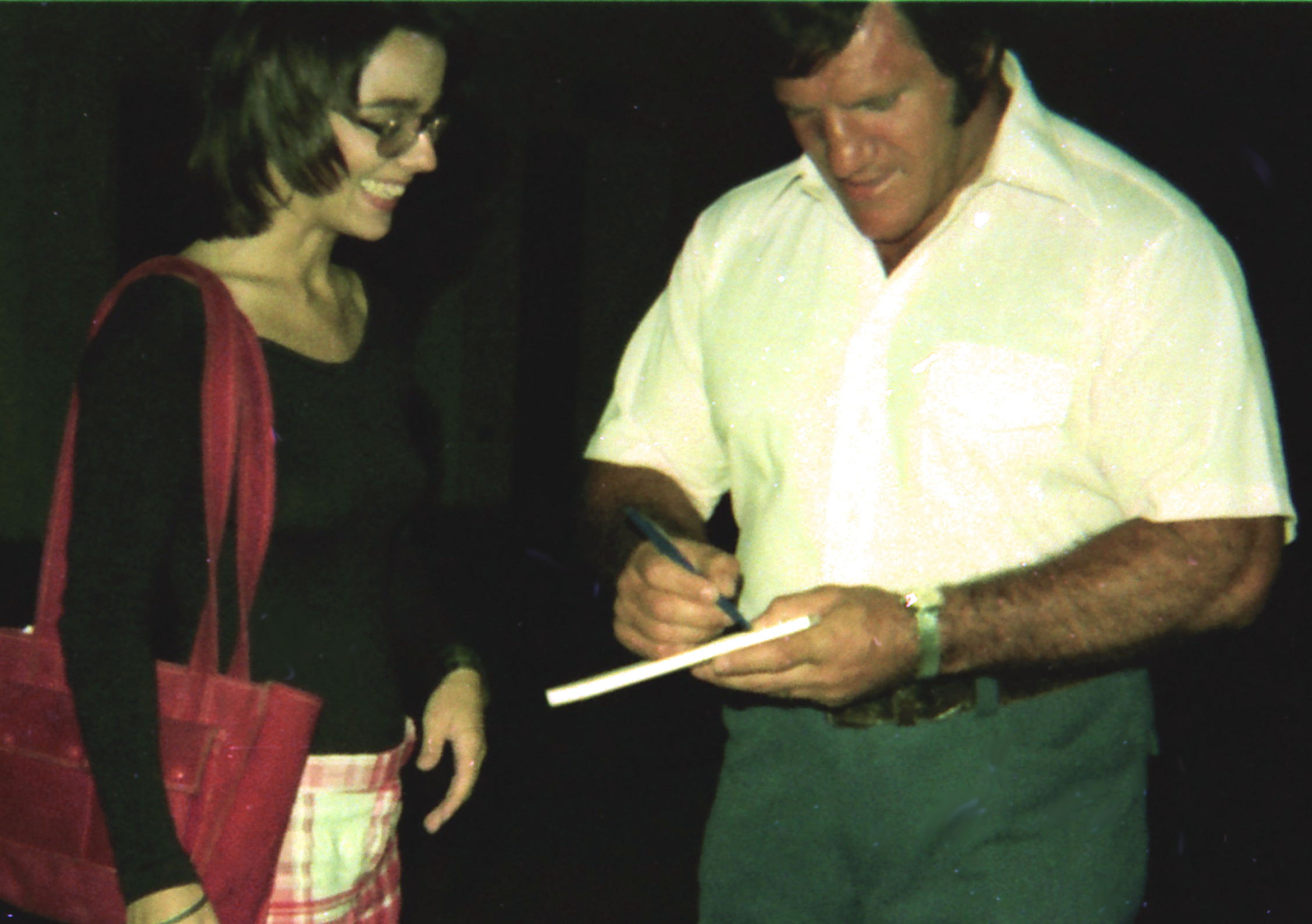 Bruno Sammartino, World Wide Wrestling Federation Champion and Kathy Segal, who later won the AAU International Bodybuilding Championship, at Atlantic City Convention Center, August 1974